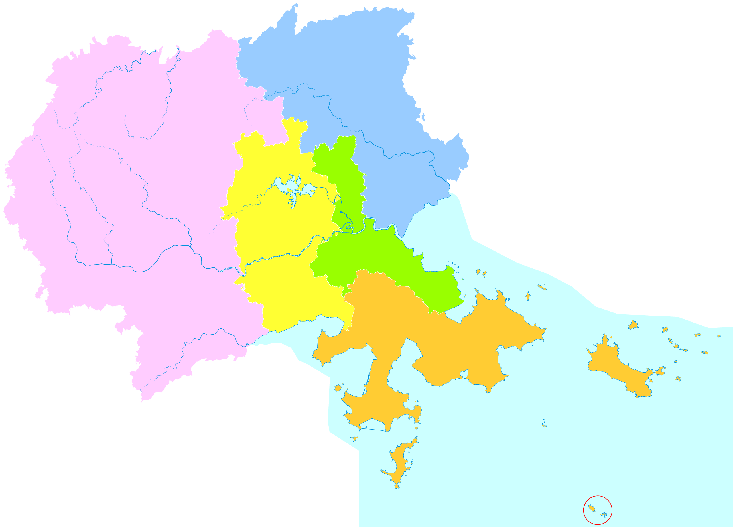 administrative division of Putian City, Fujian, China (Note: The Wuqiu Islands are part of Kinmen County, Republic of China (Taiwan). The islands are claimed by the People's Republic of China.)